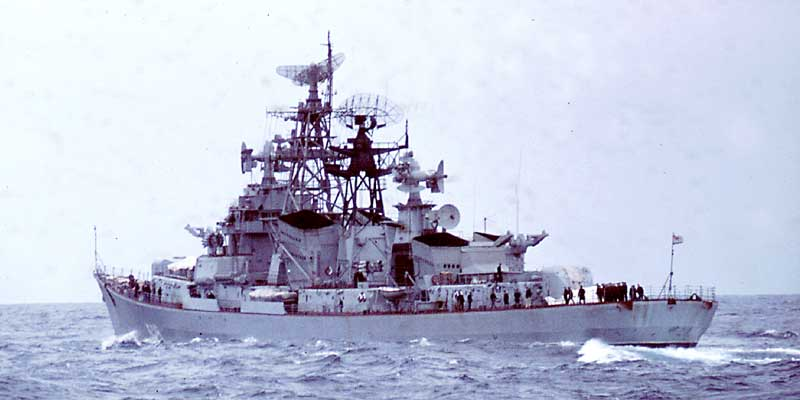 Kashin, as we take our leave. Notice sailors beginning to line the side. This was because we sailed past the Russian Flotilla lining the side, starting with Moskva. As we got to the last Russian ship, they were beginning to respond in kind.